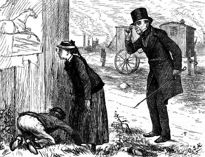 Hard Times Mr Gradgrind finds Tom and Louisa peeping inside the circus tent, by Charles Stanley Reinhart